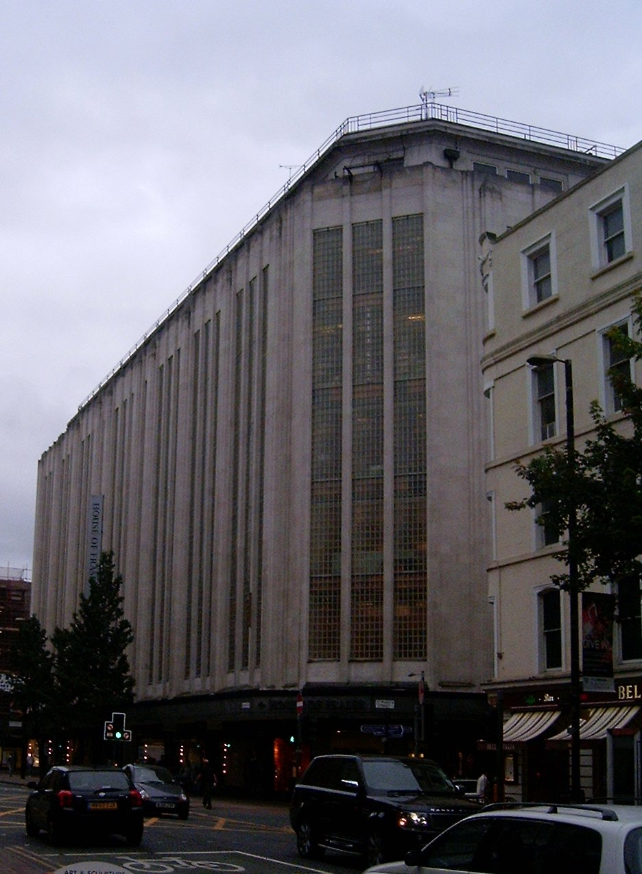 Kendals department store, Manchester